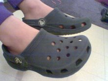 A boy wearing Crocs